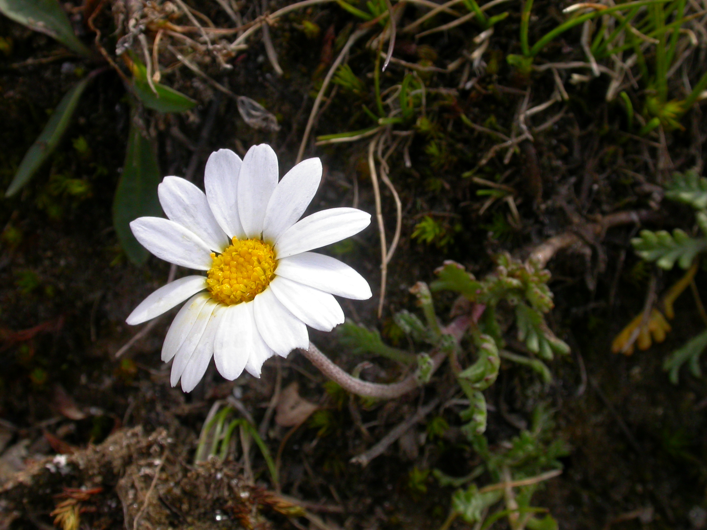 Leucanthemopsis alpina Zermatt, Riffelberg (Kanton Wallis, Switzerland), 2500 m Author: Barbara Studer – own photograph Date: 2.08.06